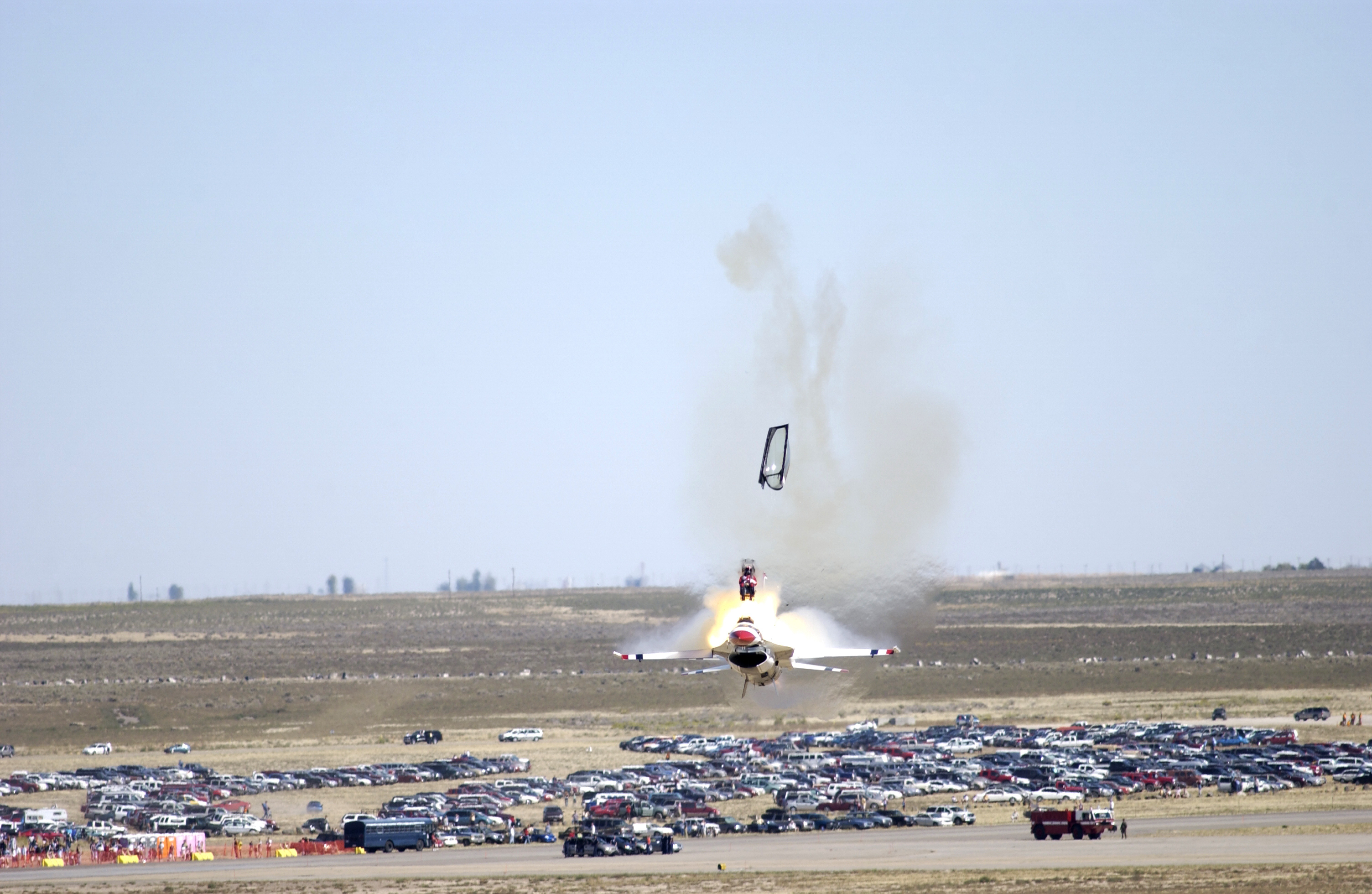 This photo shows Captain Chris Stricklin ejecting from an F-16C Falcon fighter jet as he miscalculated a Reverse Half Cuban Eight maneuver. The pilot ejected safely 0.8 seconds before total destruction of the $20 million aircraft resulting in no further loss of military or civilian property.